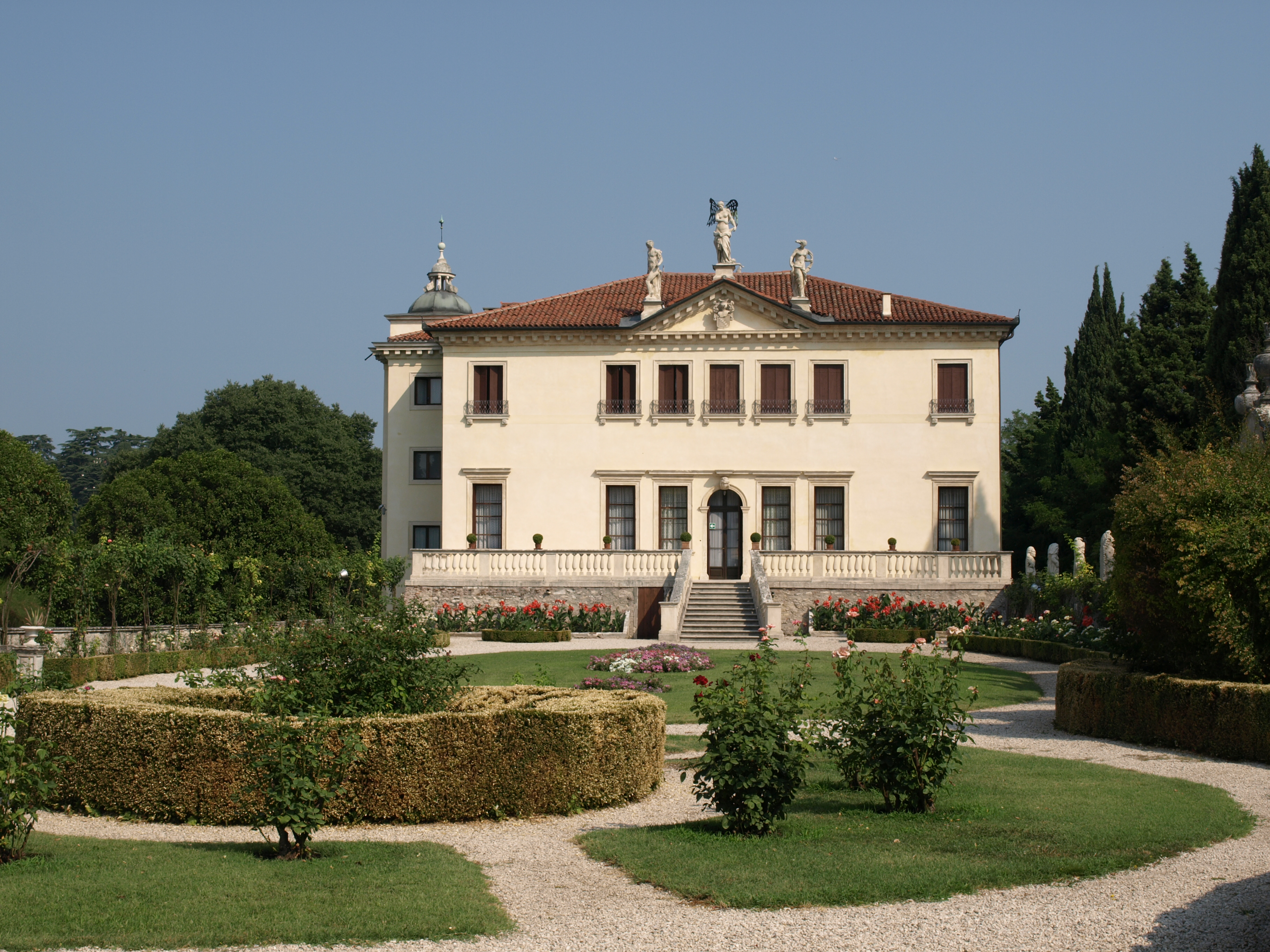 Villa Valmarana ai Nani at Vicenza.